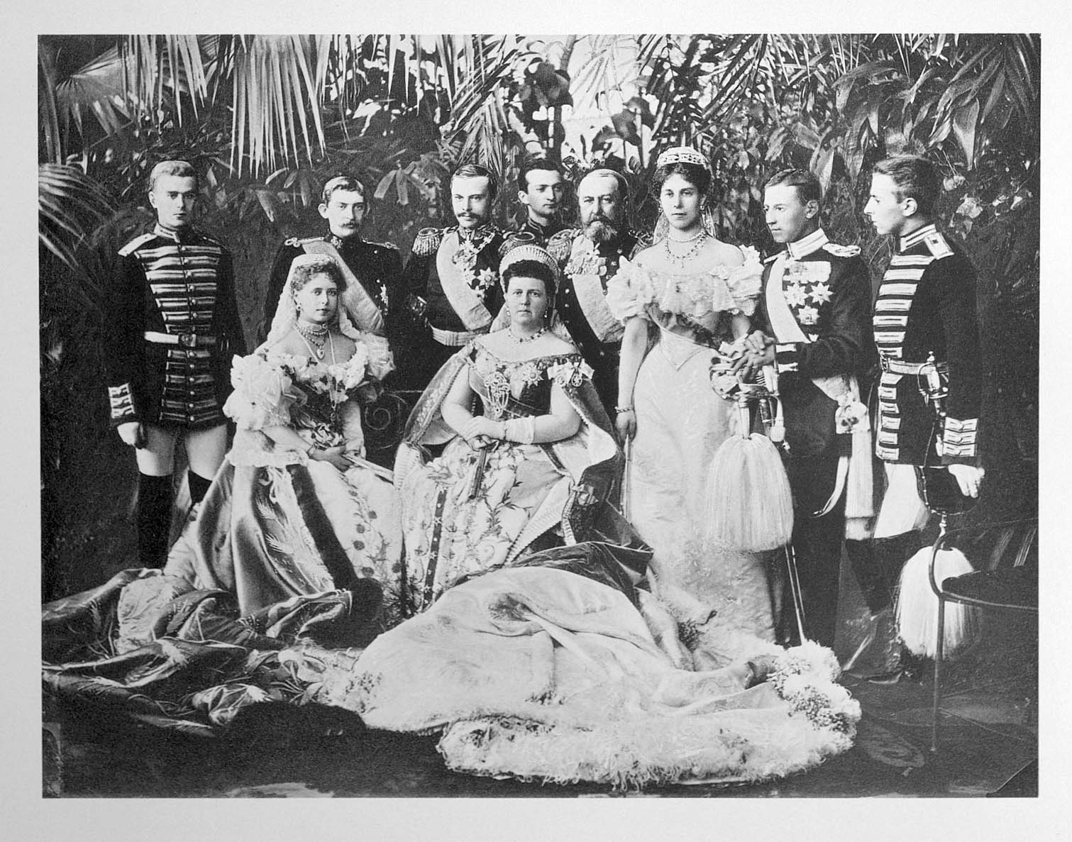 representatives of the Duchy of Saxe-Coburg and Gotha present at the coronation of Nicholas II, Emperor of Russia. They are arranged in a group with plants behind. Grand Duchess Maria Alexandrovna (1853-1920) is sitting at the centre of the group wearing a cloak with a long train which is gathered in front of her. Queen Marie of Romania (1875-1938) is sitting beside her to the left and Princess Victoria Melita of Saxe-Coburg and Gotha (1876-1936) is standing beside her to the right. Prince Alfred, Duke of Edinburgh and Saxe-Coburg & Gotha (1844-1900) is standing to the left of Princess Victoria